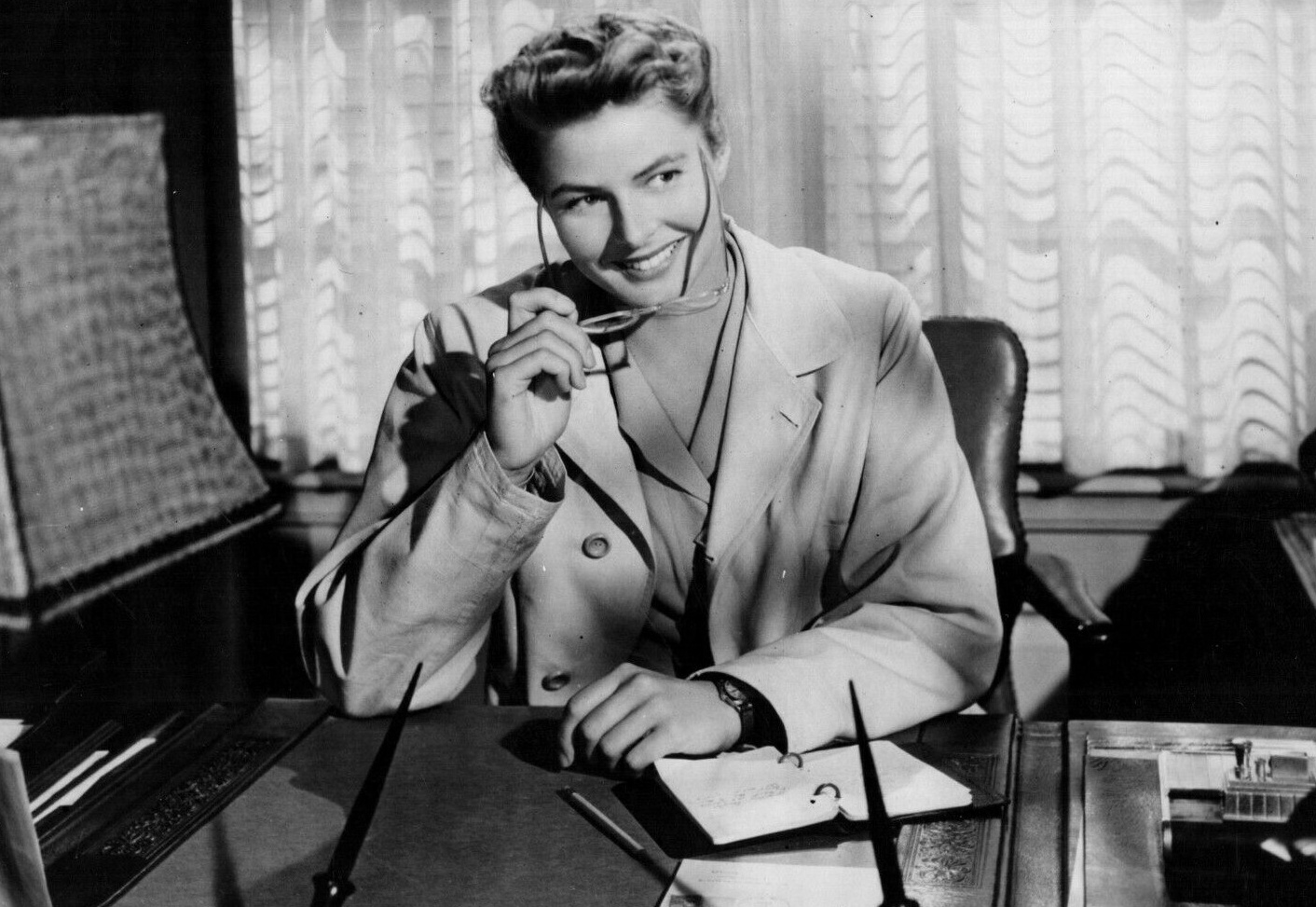 Still of Ingrid Bergman in the American psychological thriller noir film Spellbound (1945). See also film still. No copyright notice.